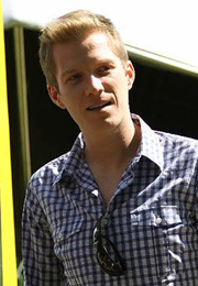 Florian Danner bei einer Charity-Veranstaltung in Wien (2011)